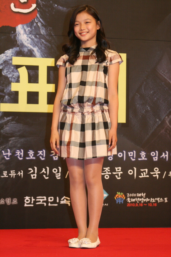 Kim Yoo-jung in July 2010